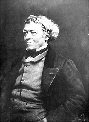 Jean-Baptiste-Camille Corot